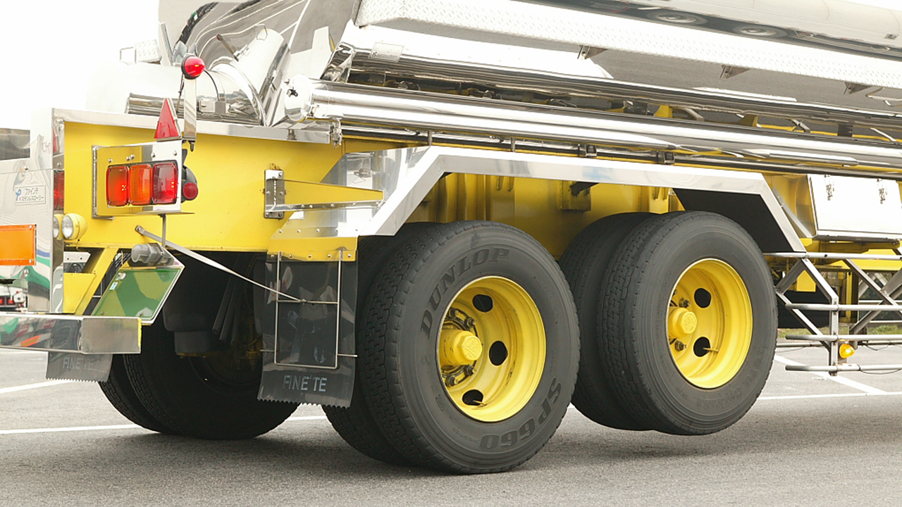 Airlift axle.